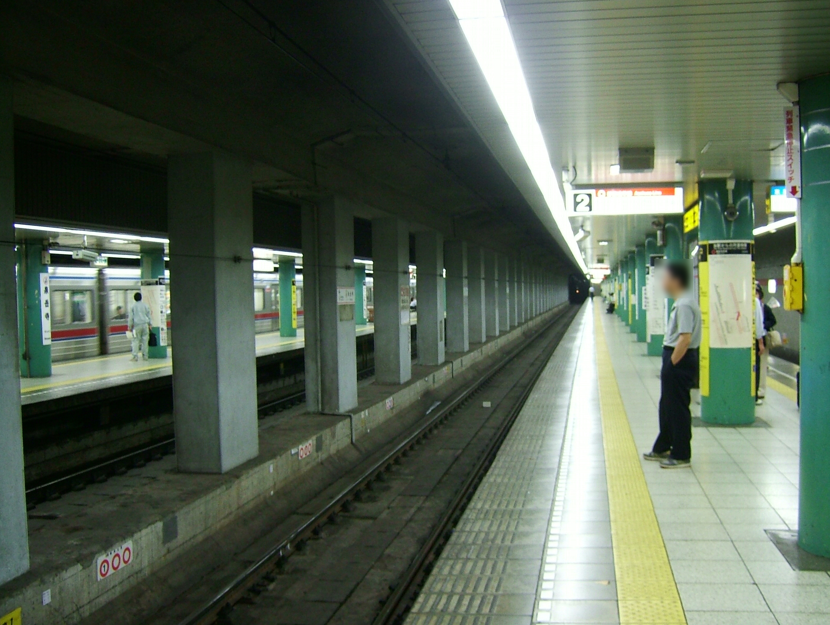 The no.1 and no.2 platform at Sengakuji Station on the Toei Asakusa Line and Keikyū Main Line in Minato city, Tokyo, Japan